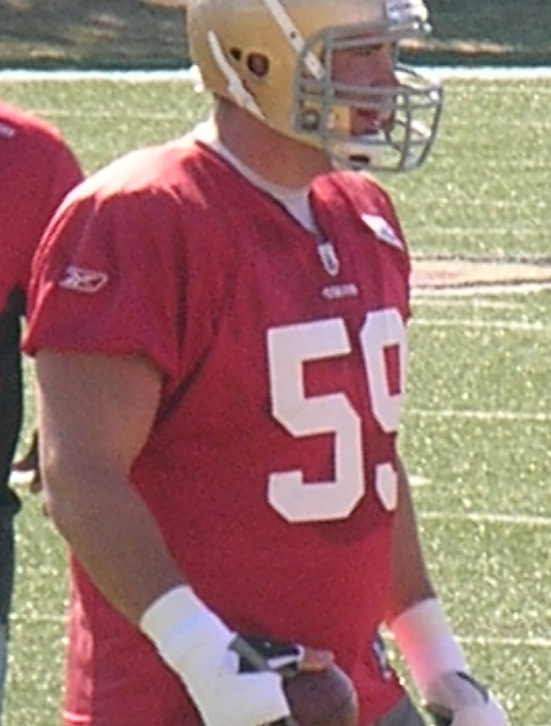 San Francisco 49ers offensive lineman Cody Wallace at training camp in Santa Clara, California.